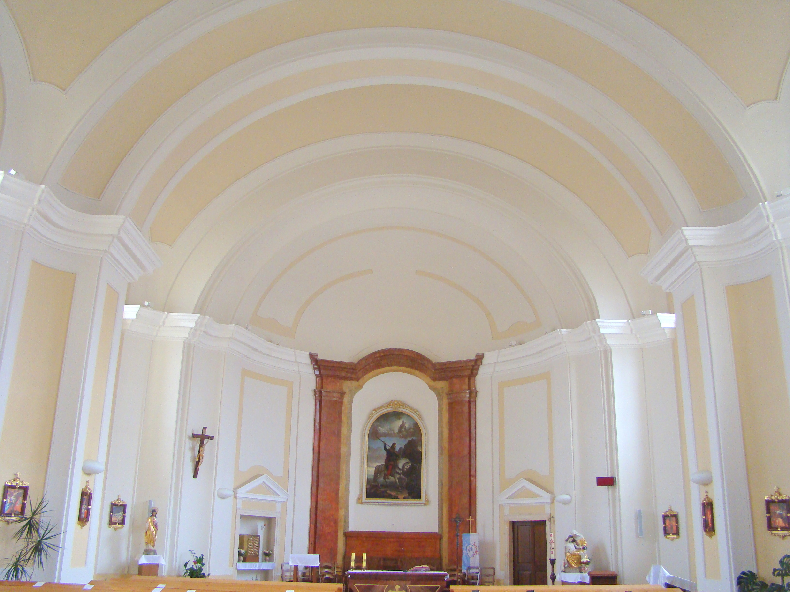 Roman Catholic church in Oradea fortress, Bihor county, Romania